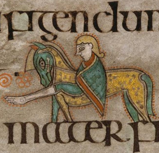 Grotesque horseman illustration from the Book of Kells